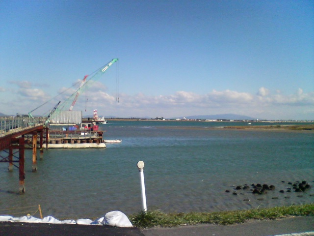 Tokushima Higashi Kanjo Ohashi (東環状大橋), under construction